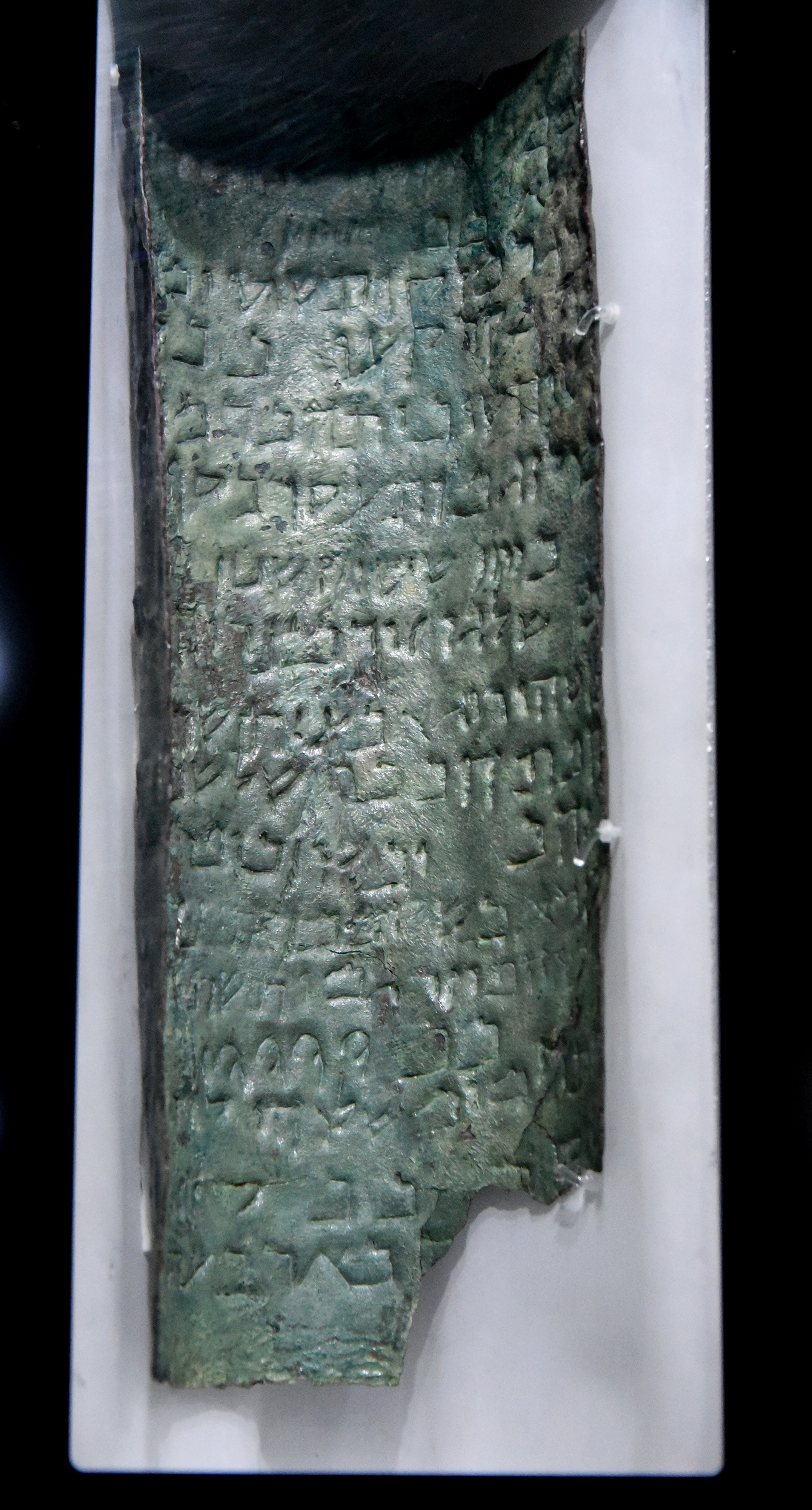 A Strip of the Copper Scroll from Qumran Cave 3 written in the Hebrew Mishnaic dialect. All of the 23 copper strips are on display in a large glass case. First century CE. From Qumran (Khirbet Qumran or Wadi Qumran), West Bank of the Jordan River, near the Dead Sea, modern-day State of Israel. The Jordan Museum, Amman, Jordan Hashimite Kingdom.